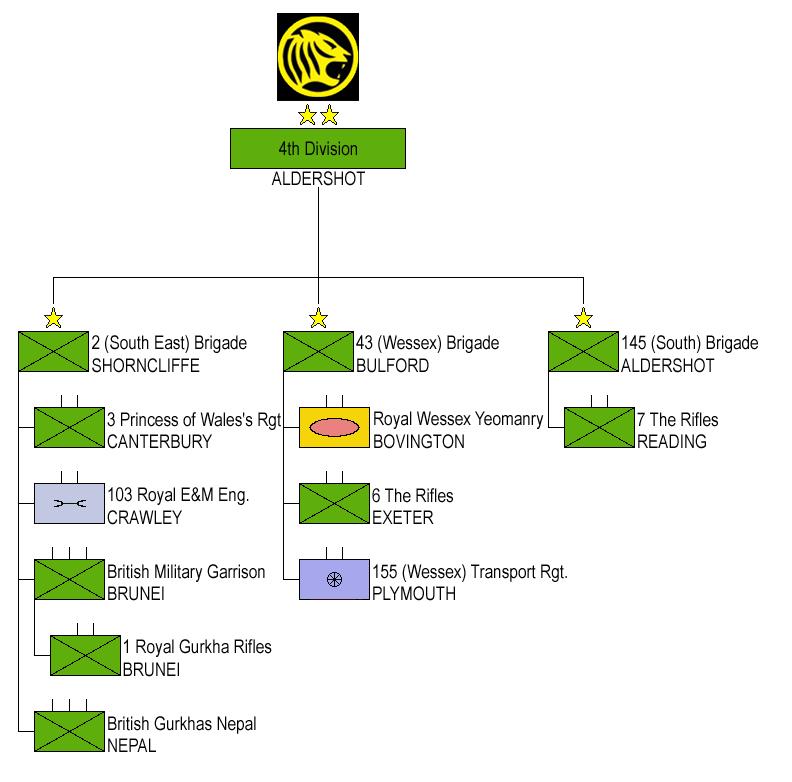 United Kingdom Army 4th Division Structure